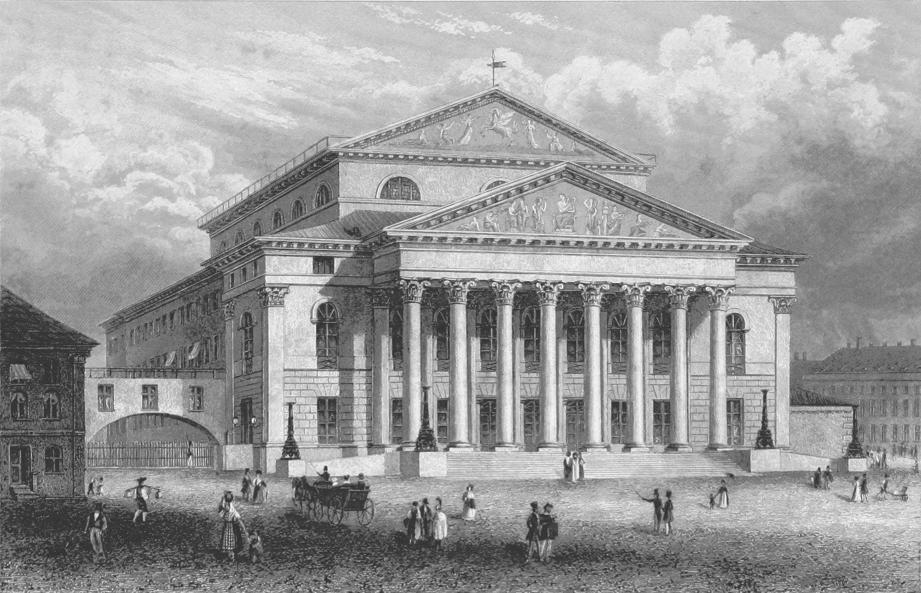 Image extracted from page 275 of above. Original held and digitised by the British Library. Note: The colours, contrast and appearance of these illustrations are unlikely to be true to life. They are derived from scanned images that have been enhanced for machine interpretation and have been altered from their originals.